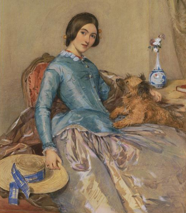 Jane Wightwick Knightley (1827-1911), heiress of Offchurch in Warwickshire, wife of Heneage Finch, 6th Earl of Aylesford (d.1871). Daughter and sole heiress of John Wightwick Knightley (1804-1830) who died aged 26 at Terracina in Italy, by his wife Jane Willes (1807–1833), a daughter of Rev. William Willes of Astrop House in Northamptonshire. Her mural monument survives in Offchurch Church.